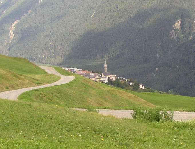 View of Sent from Vastur